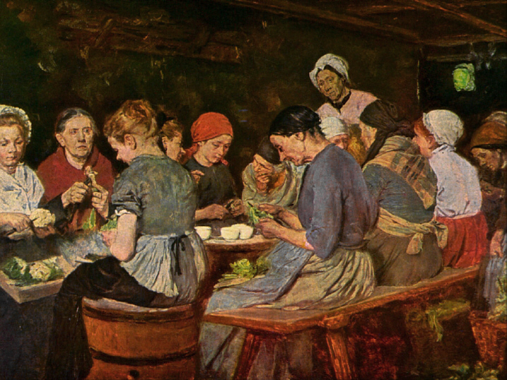 The Preserve Makers